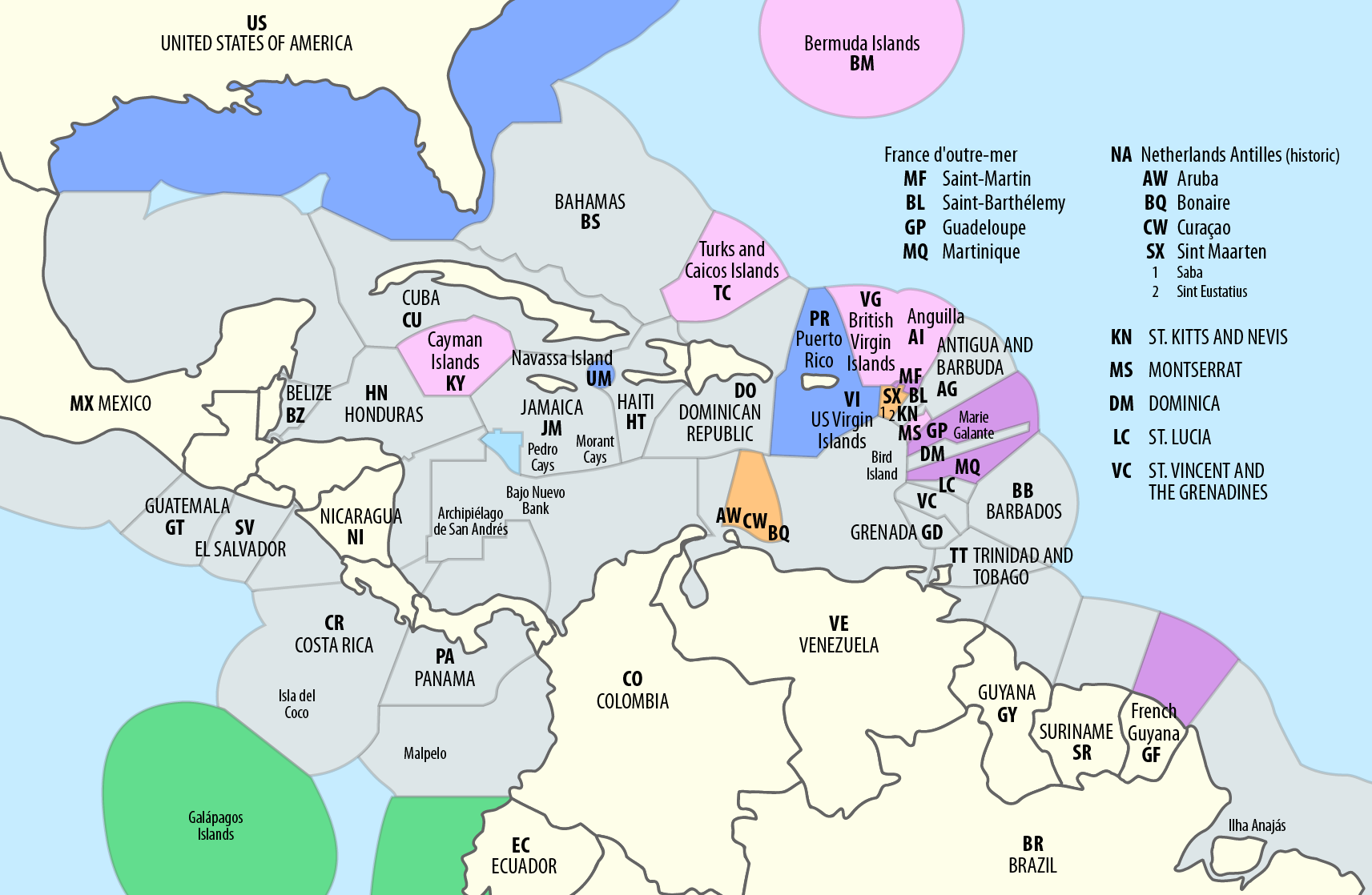 Territorial waters (EEZ) in the Caribbean